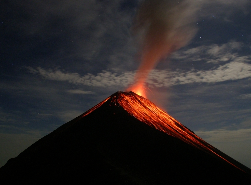 Volcan de Fuego erupts, lit up by the full moon overhead.